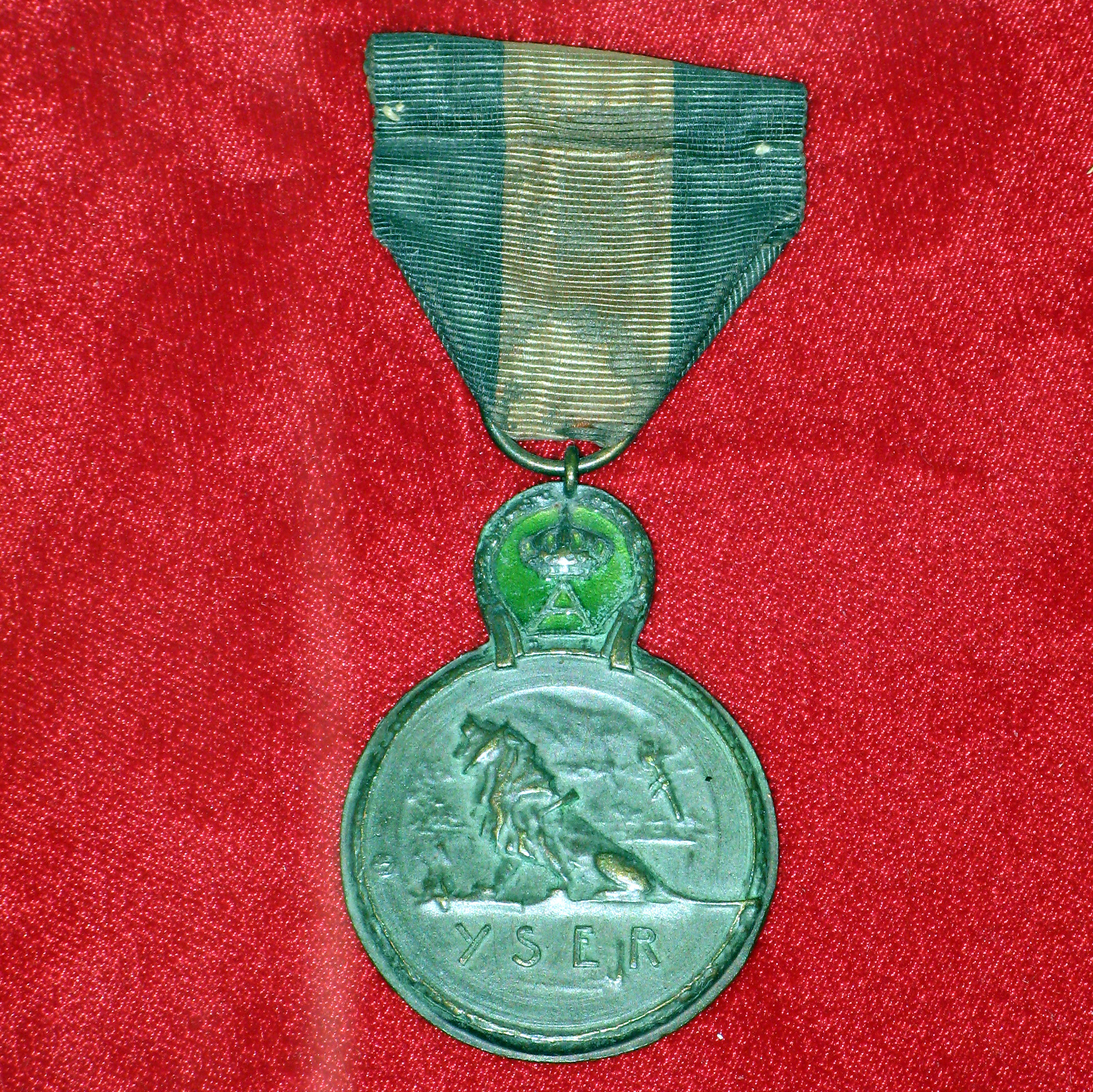 Médaille de l'Yser, commemorative medal of the Battle of the Yser of 1914. Awarded by Belgium to personel who behaved honourably on the Yser front between 17 and 31 October 1914. [1]